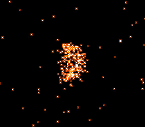 This Chandra image, the first X-ray image ever made of Venus, shows a half crescent due to the relative orientation of the Sun, Earth and Venus. The X-rays from Venus are produced by fluorescent radiation from oxygen and other atoms in the atmosphere between 120 and 140 kilometers above the surface of the planet. In contrast, the optical light from Venus is caused by the reflection from clouds 50 to 70 kilometers above the surface. Solar X-rays bombard the atmosphere of Venus, knock electrons out of the inner parts of atoms, and excite the atoms to a higher energy level. The atoms almost immediately return to their lower energy state with the emission of a fluorescent X-ray. A similar process involving ultraviolet light produces the visible light from fluorescent lamps.